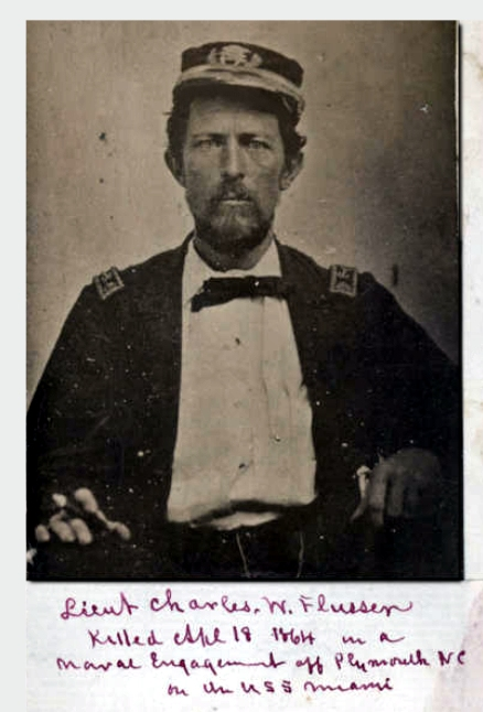 "Killed April 18, 1864 in a naval engagement off Plymouth NC on the USS Miami"